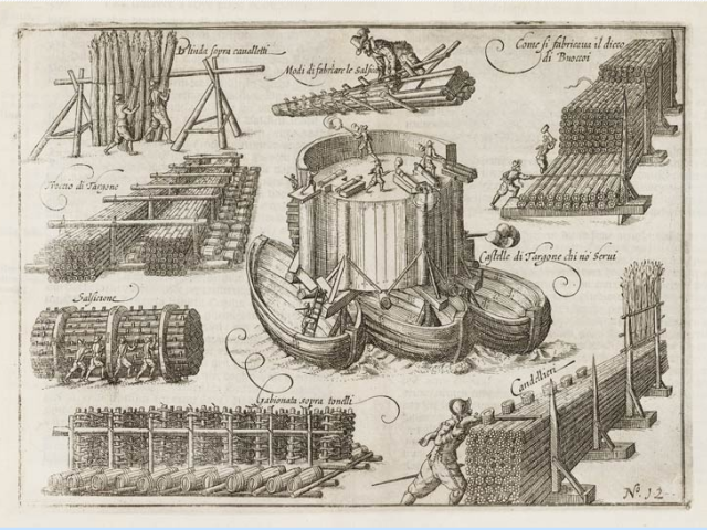 Siege equipment used during the Siege of Ostend (Belgium)